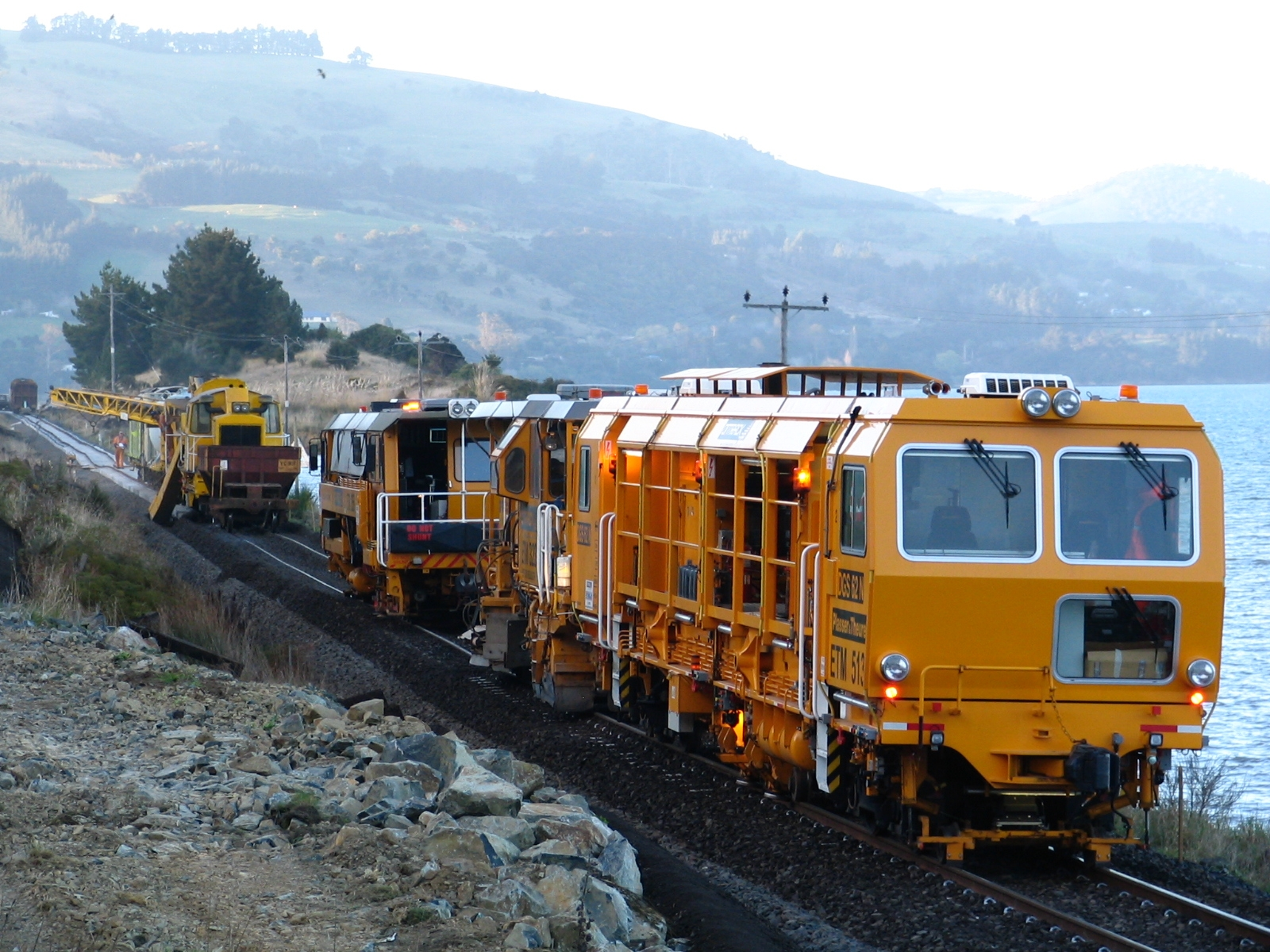 Kiwirail subsidiary Ontrack performing maintenance (replacing wooden sleepers with concrete ones) at Blueskin Bay, Otago, New Zealand. Closest machine is a Plasser and Theurer DGS 62 N dynamic track stabilizer, number ETM 513. Second is a SSP 300 Regulator, number ETM 323, third a Plasser 09-16 CAT Continuous Action Tamper, number ETM 255. Further along is vehicle number ETM 404. News report